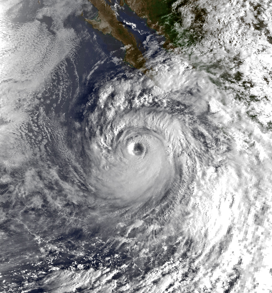 Hurricane Nora of 1997 on September 22